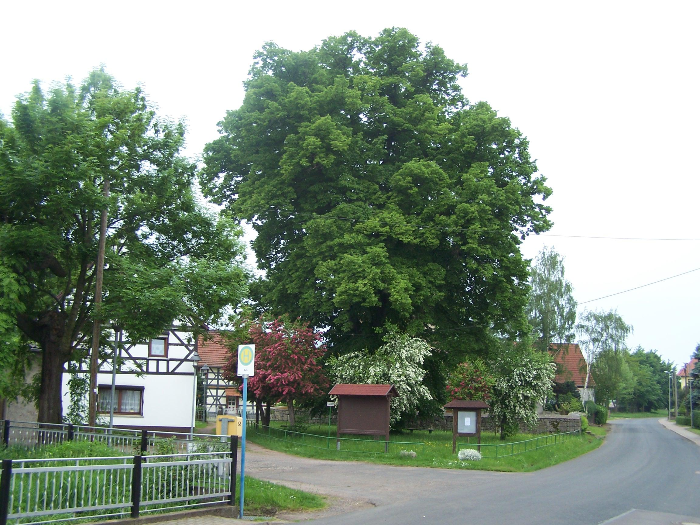 In Burla village.